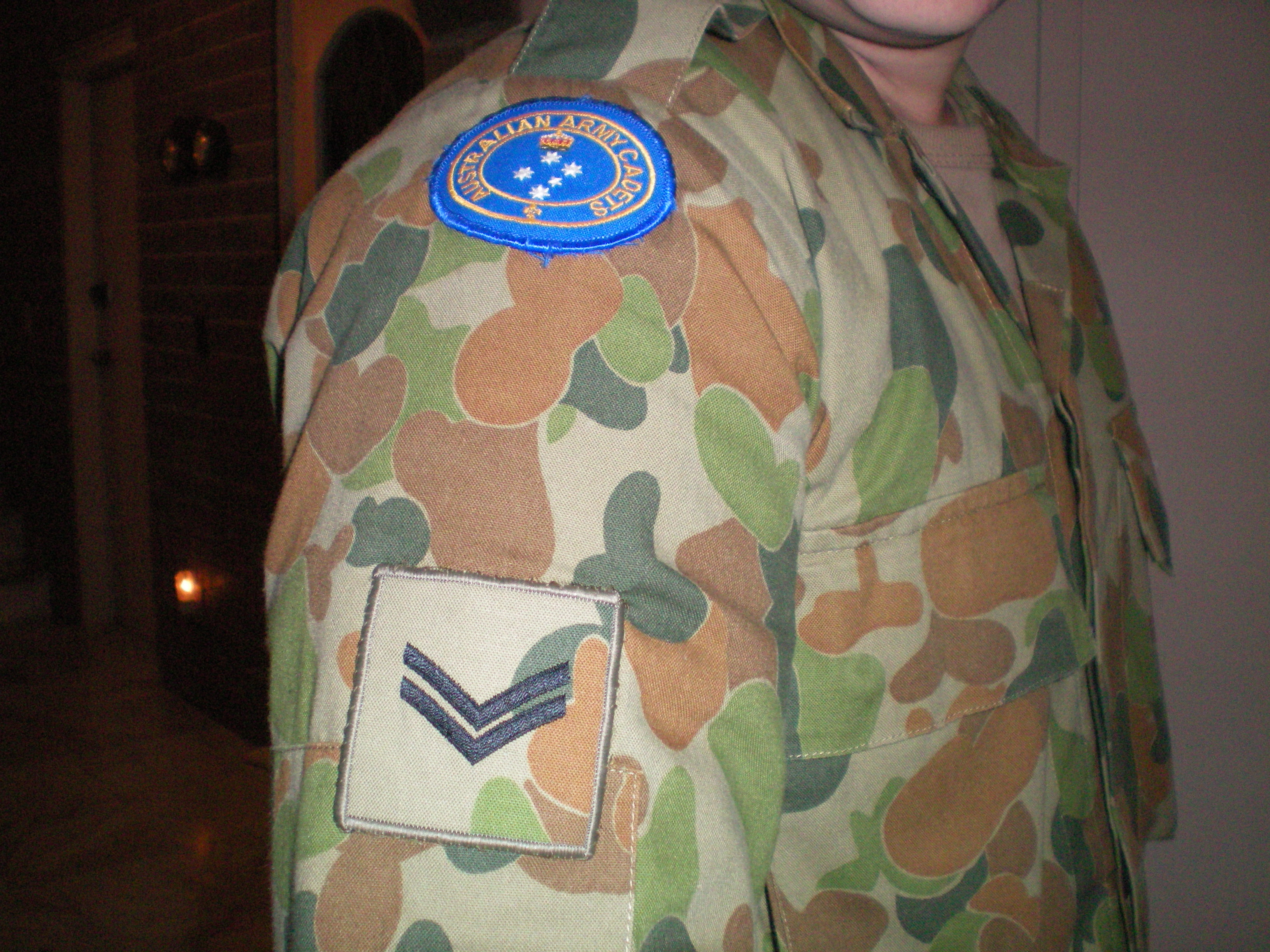 The Australian Army Cadets uniform, rank of corporal